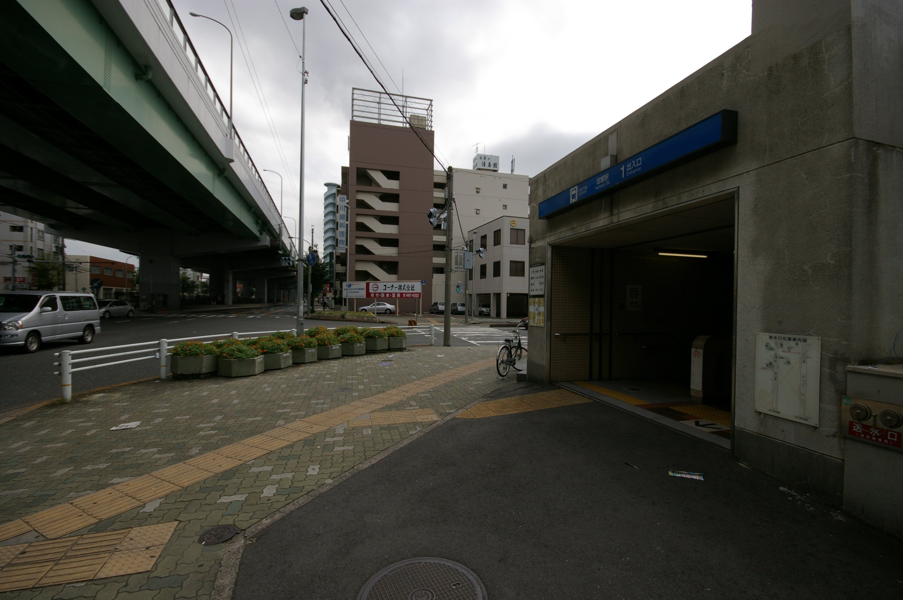 Nagoya Iwatsuka Subway Station